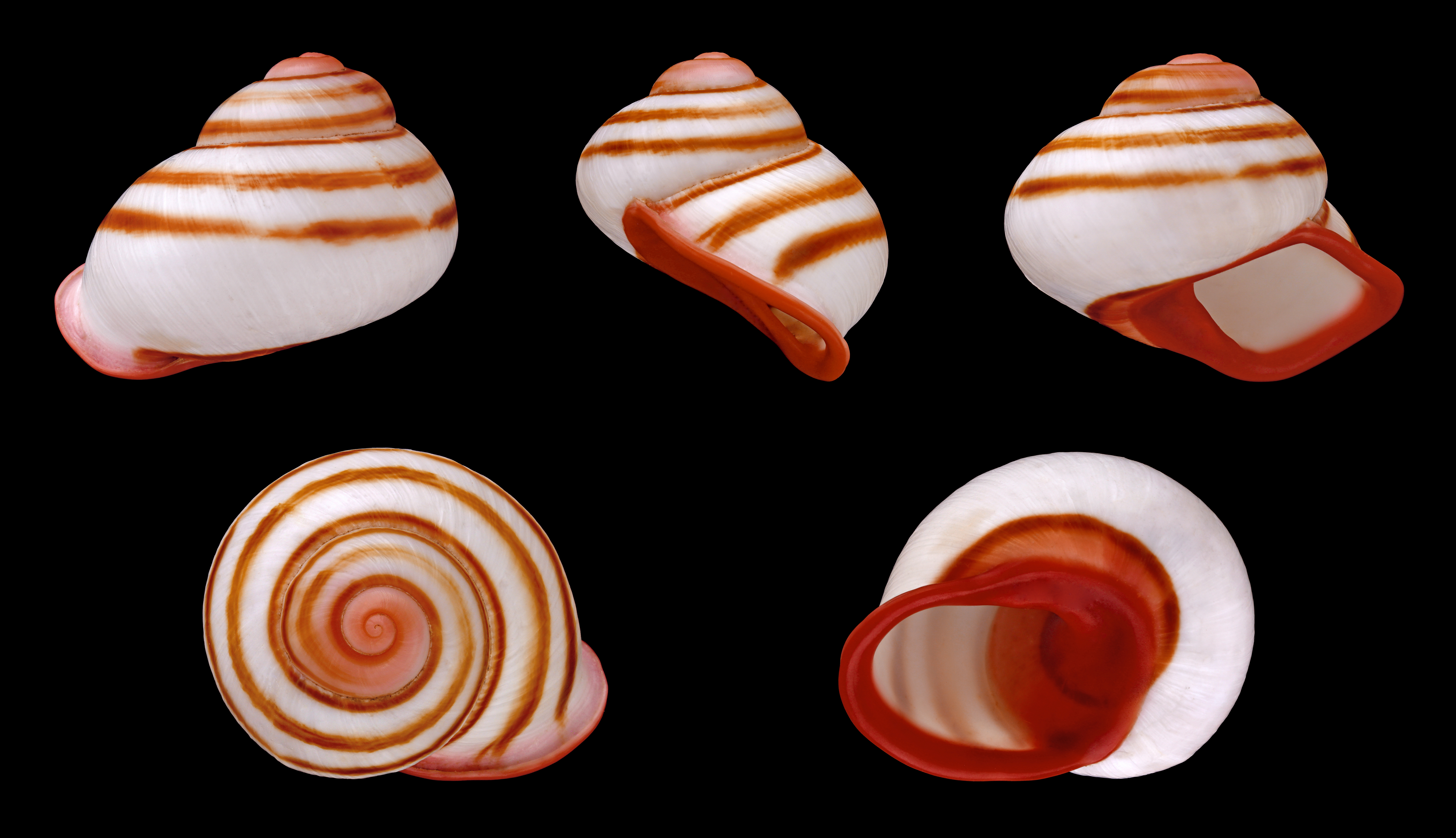 Diameter 4,4 cm; Originating from Galle, Sri Lanka; Shell of own collection, therefore not geocoded.